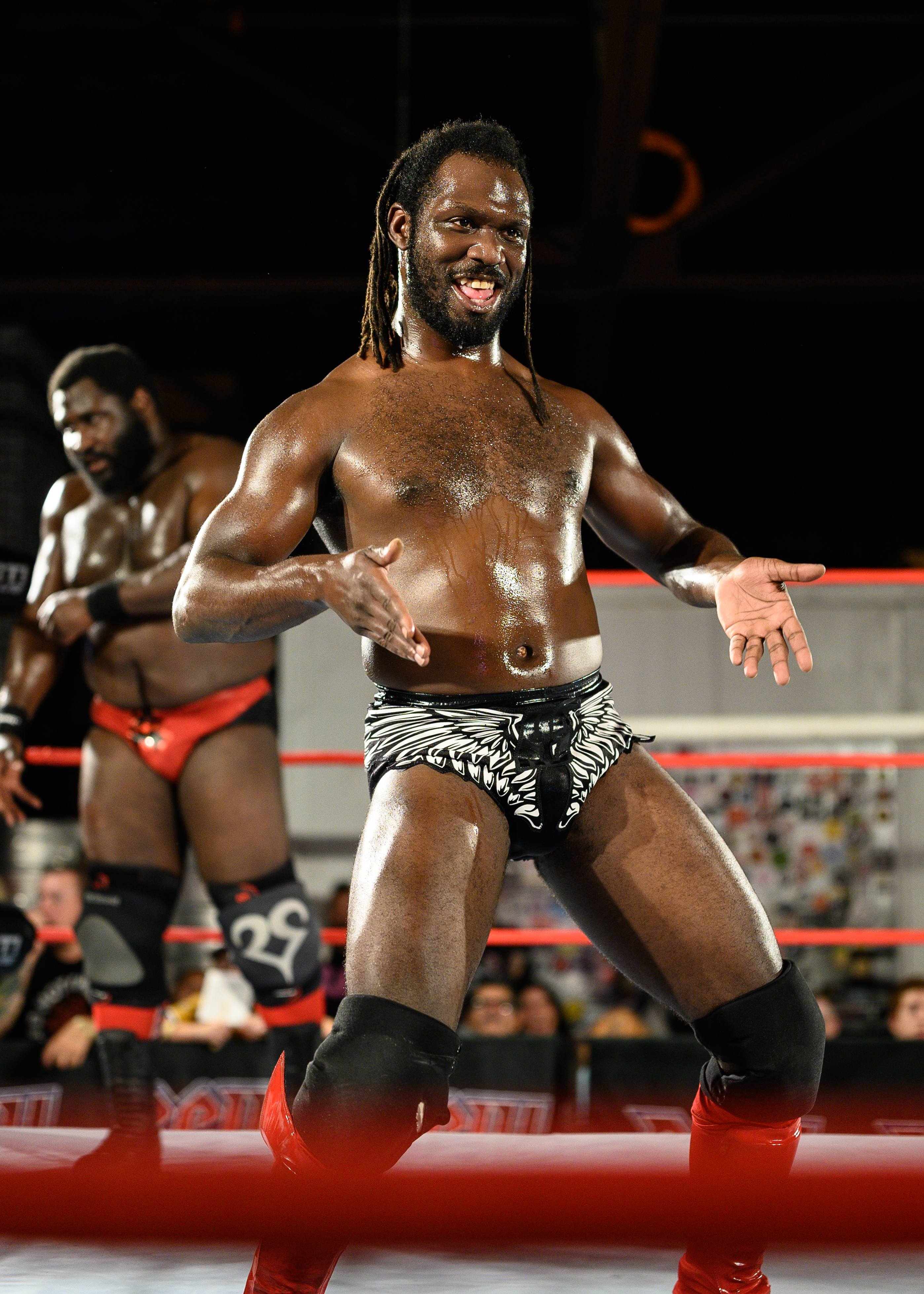 Rich Swann at RCW & IMPACT Wrestling present Bash at the Brewery (July 5, 2019)